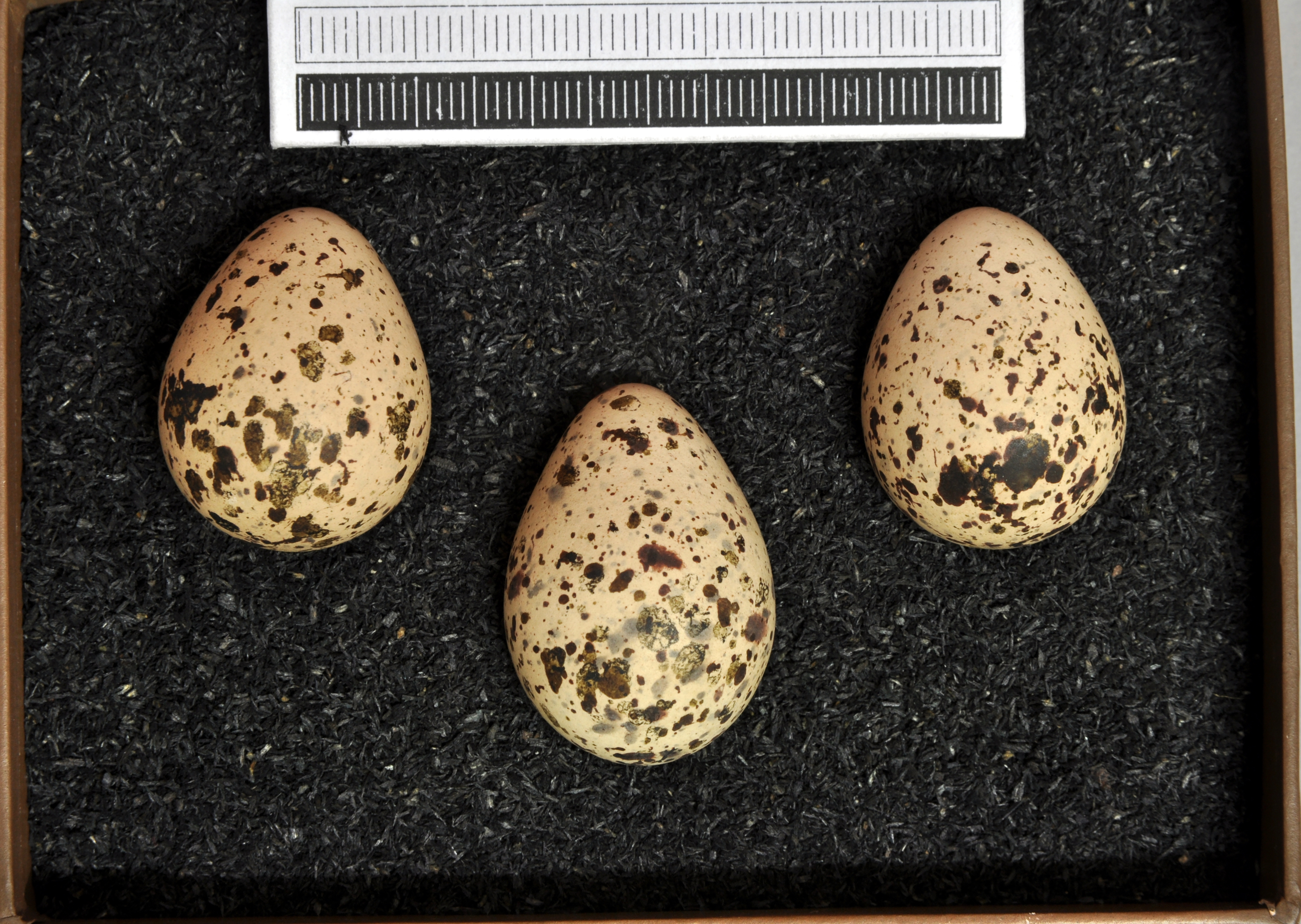 Spotted sandpiper Actitis macularius , egg, Coll. Museum Wiesbaden